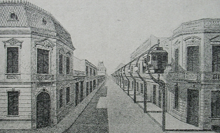 Illustration showing the proposal for the "Le Tellier" elevated tramway in Buenos Aires.